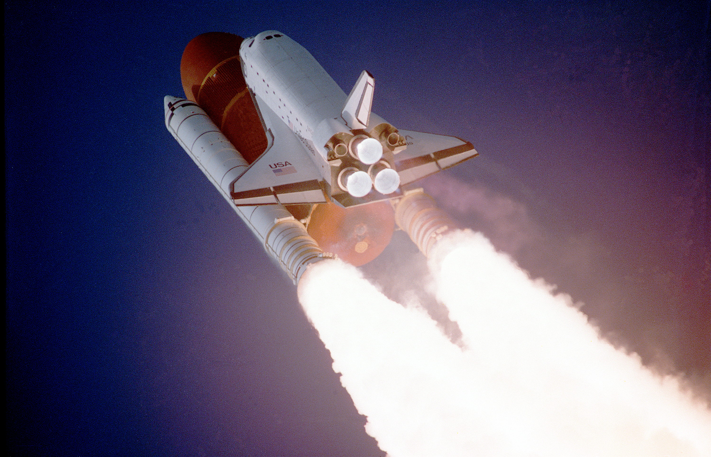 Space Shuttle Atlantis takes flight on its STS-27 mission on December 2, 1988, 9:30 a.m. EST, utilizing 375,000 pounds thrust produced by its three main engines. The STS-27 was the third classified mission dedicated to the Department of Defense (DoD). After completion of mission, Orbiter Atlantis landed December 6, 1988, 3:36 p.m. PST at Edwards Air Force Base, California.